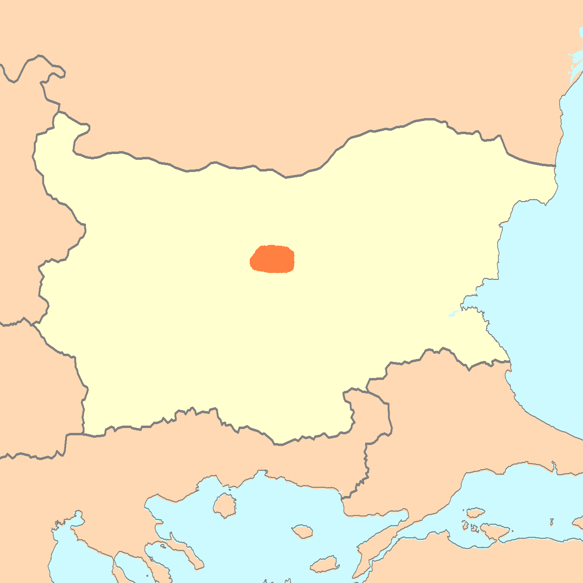 North Bulgarian Corriedale areal of distribution